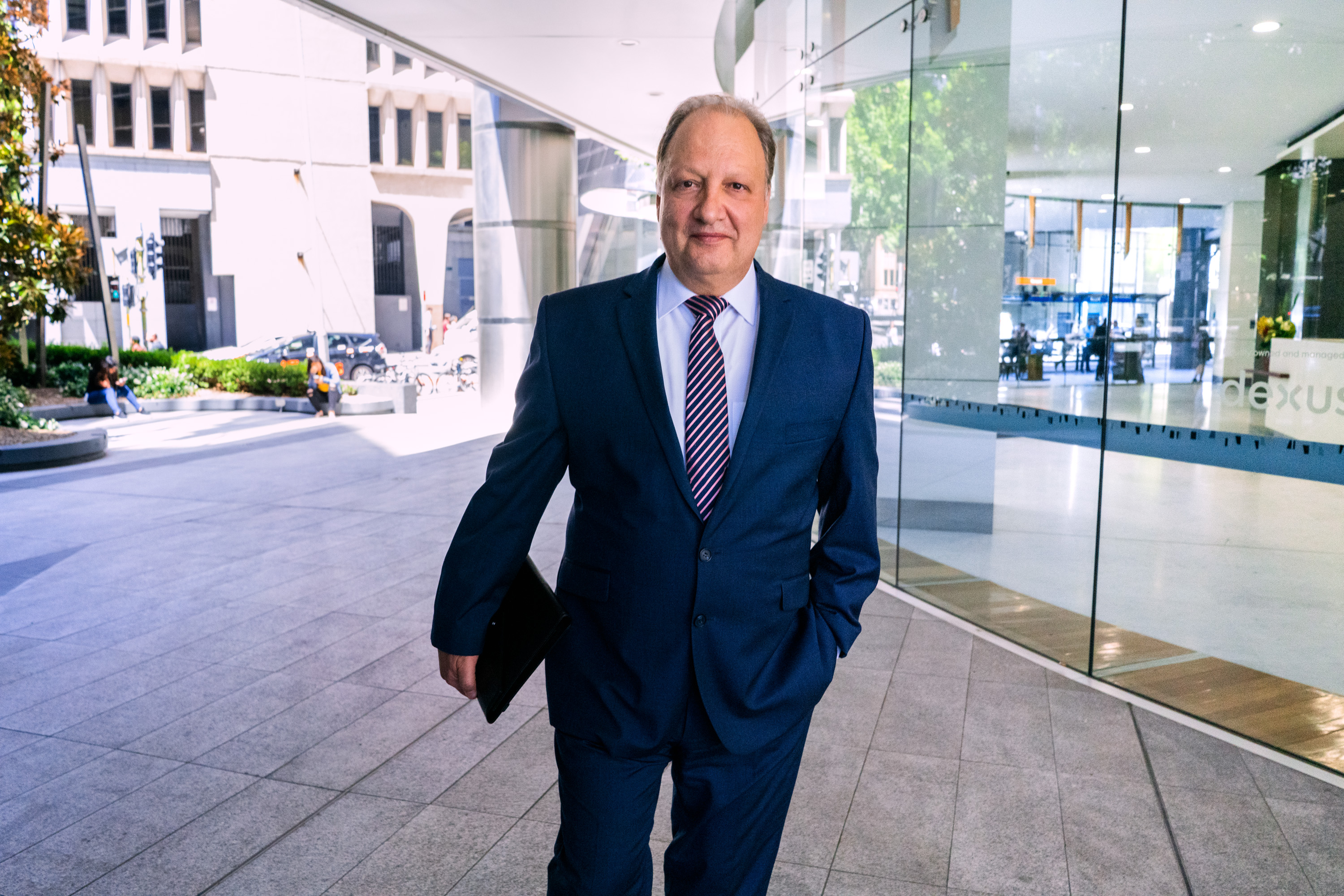 John Livanas, CEO, State Super